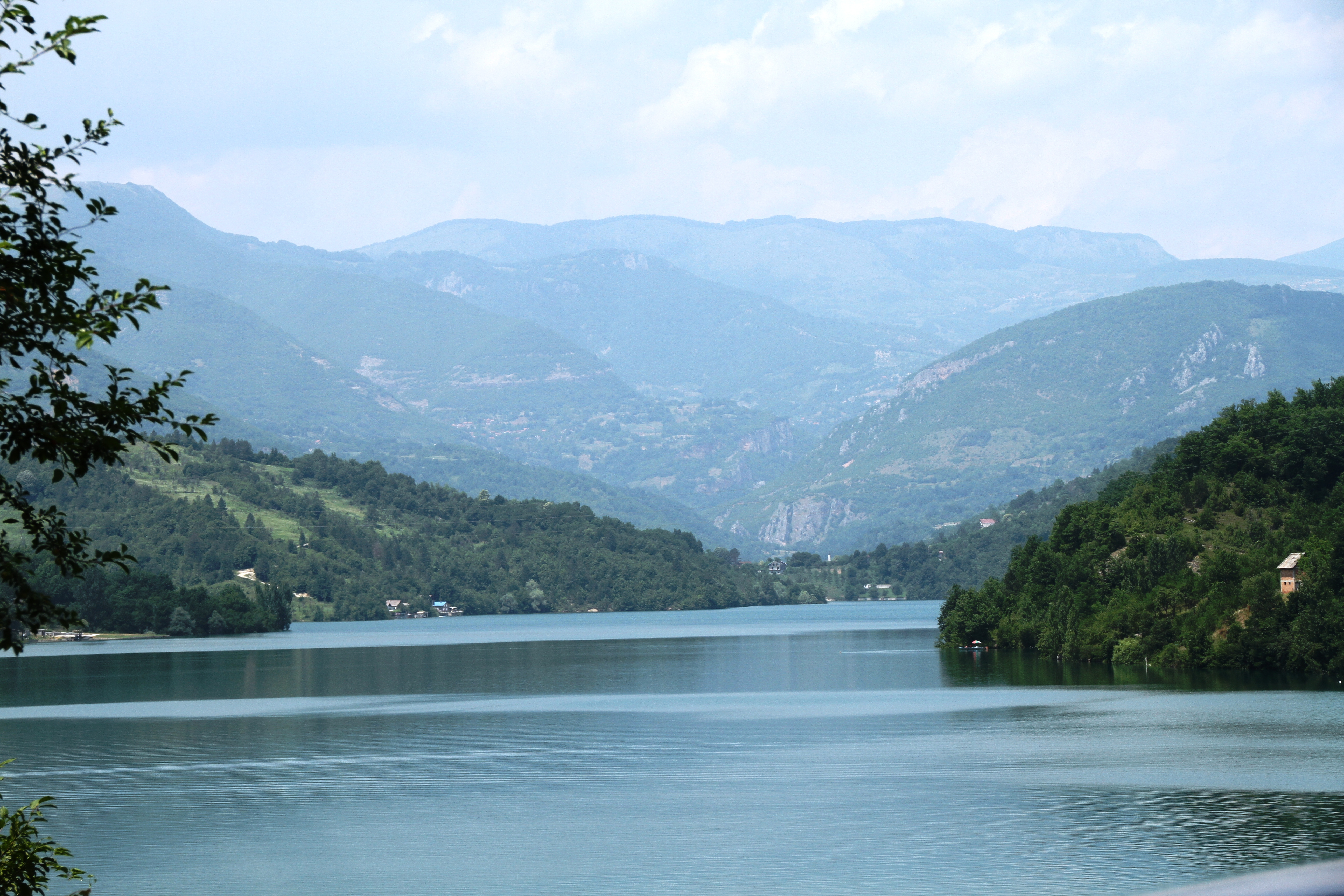 Jablanica Lake is an artificial reservoir on the middle stretch of the river Neretva, southwest of Konjic city, southern Bosnia-hercegovina. The lake is regulated by the Jablanica Dam.